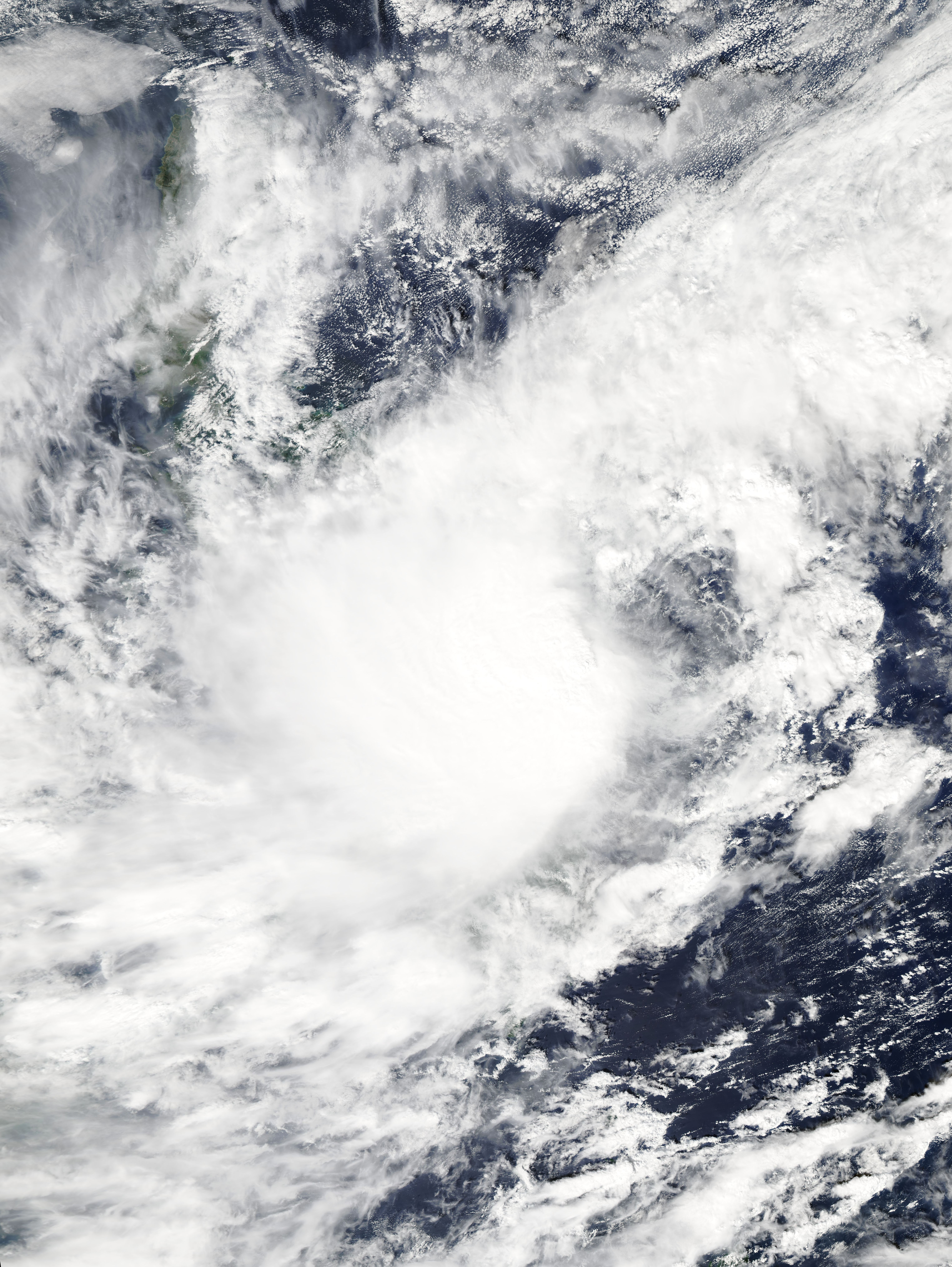 Tropical Storm Kai-tak (32W) to the east of the Philippines on December 14, 2017